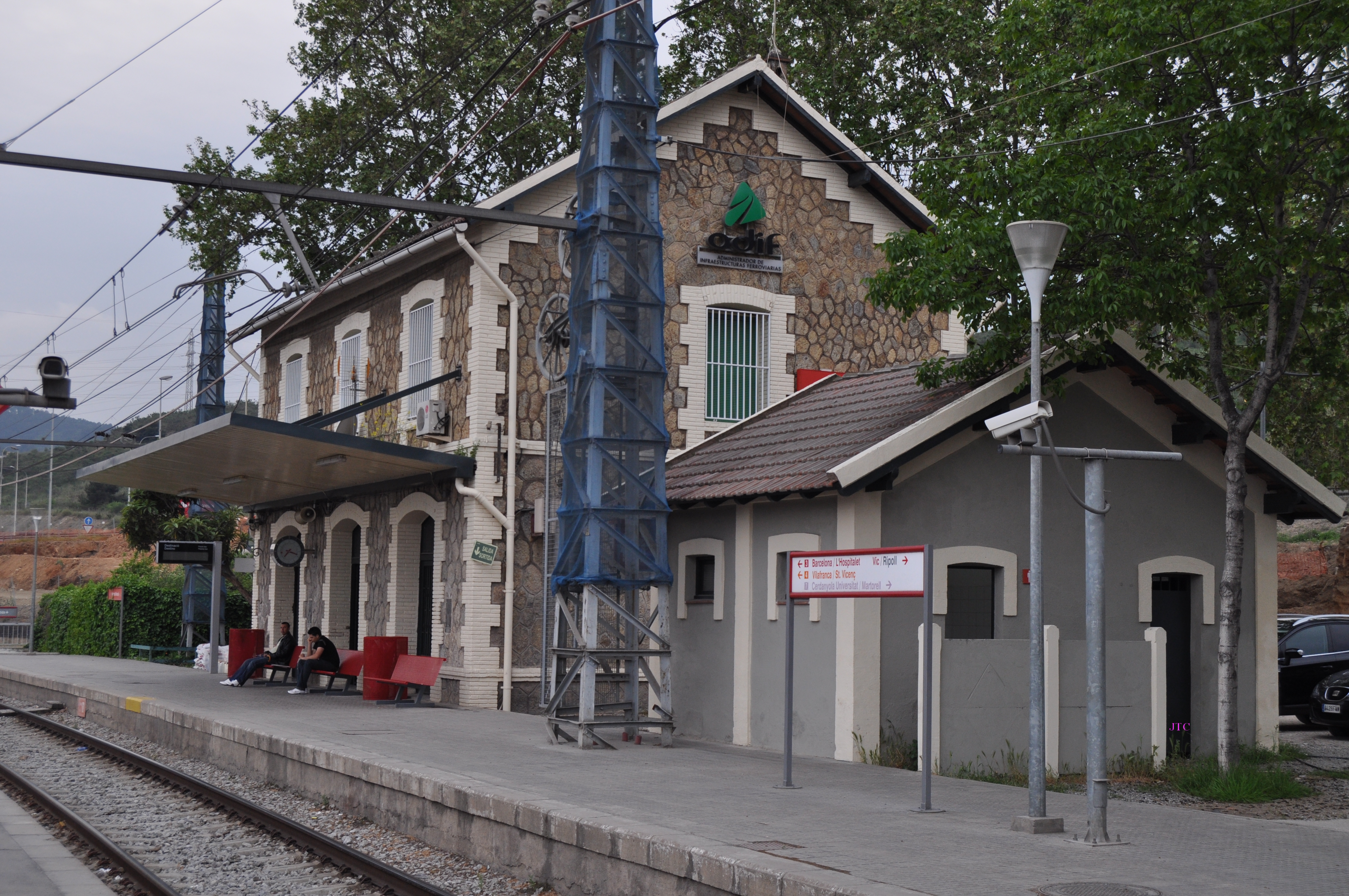 Montcada-Bifurcació railway station (Montcada i Reixac, province of Barcelona, Catalonia, Spain).